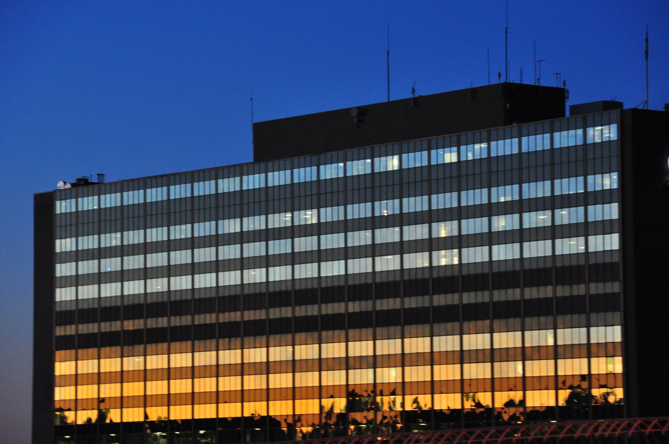 Headquarters of Quebec's provincial police, in Montreal